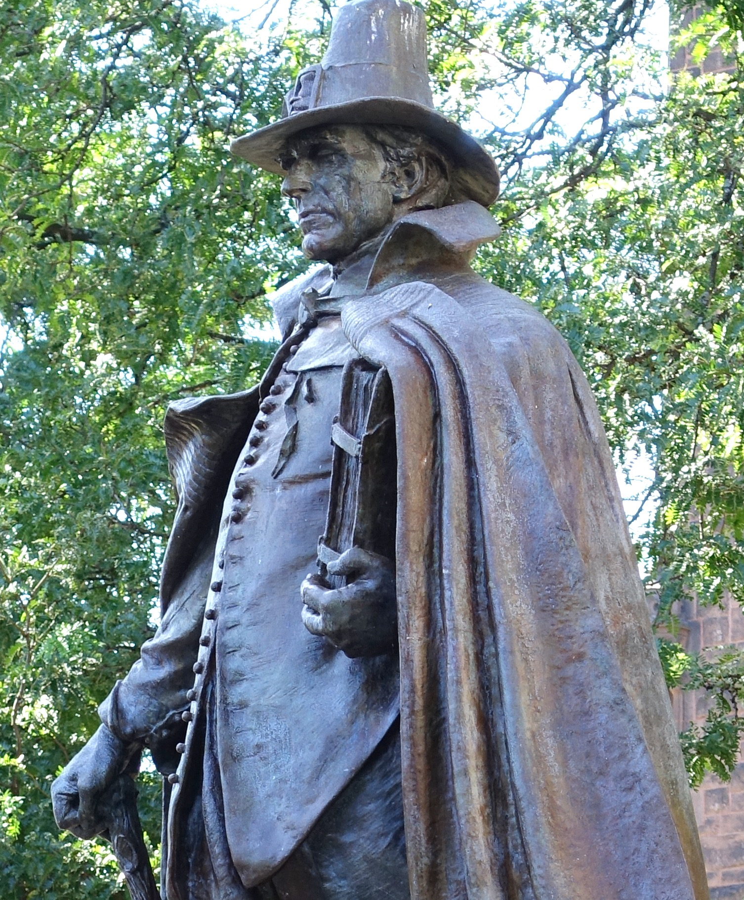 Detail from Augustus Saint-Gaudens's sculpture The Puritan Springfield MA , erected 1883-1886